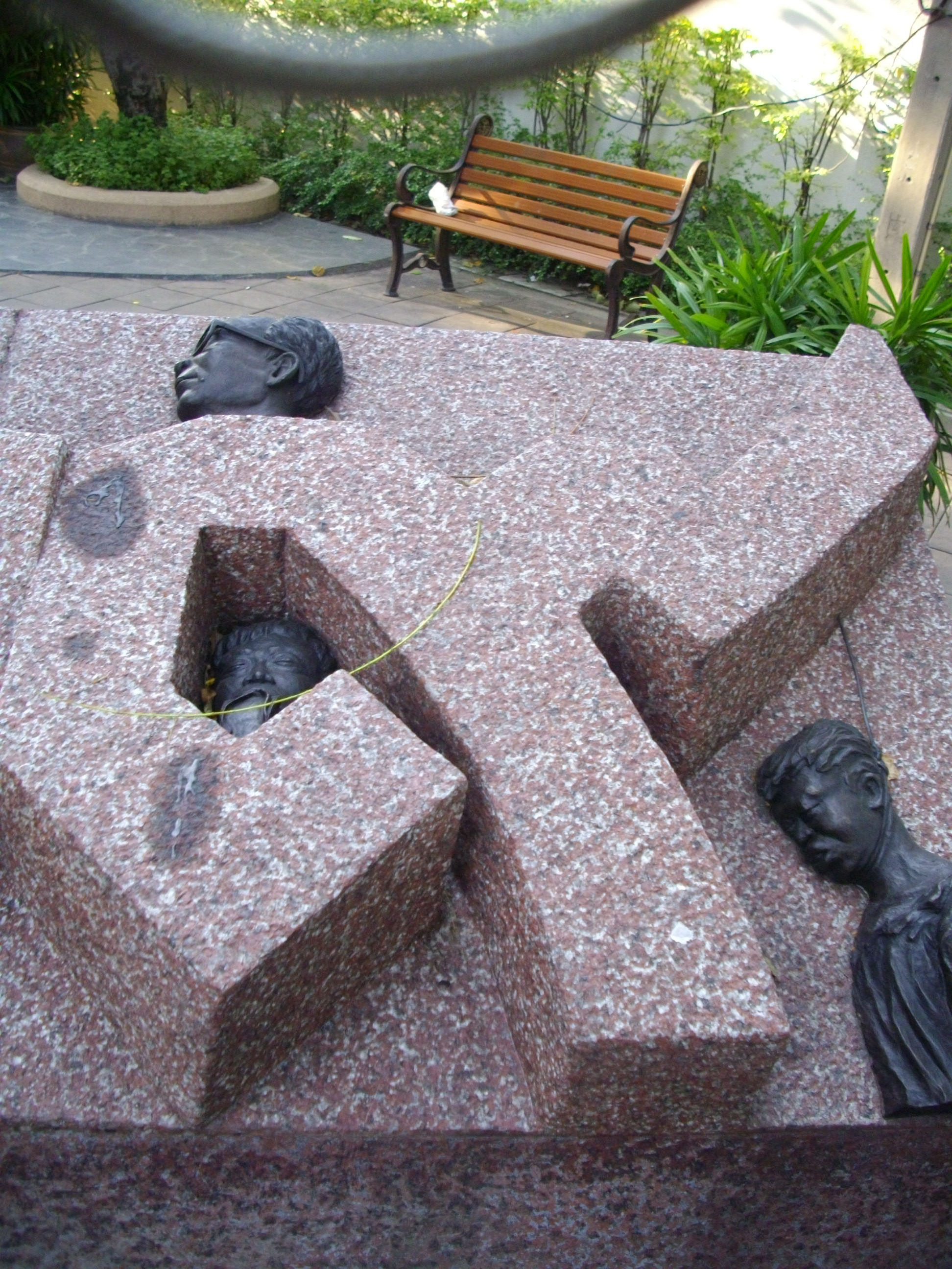 Detail (Thai digit "๙") of the Sculpture of the Massacre of 6 October 1976 Memorial at Thammasat University, Bangkok, Thailand.